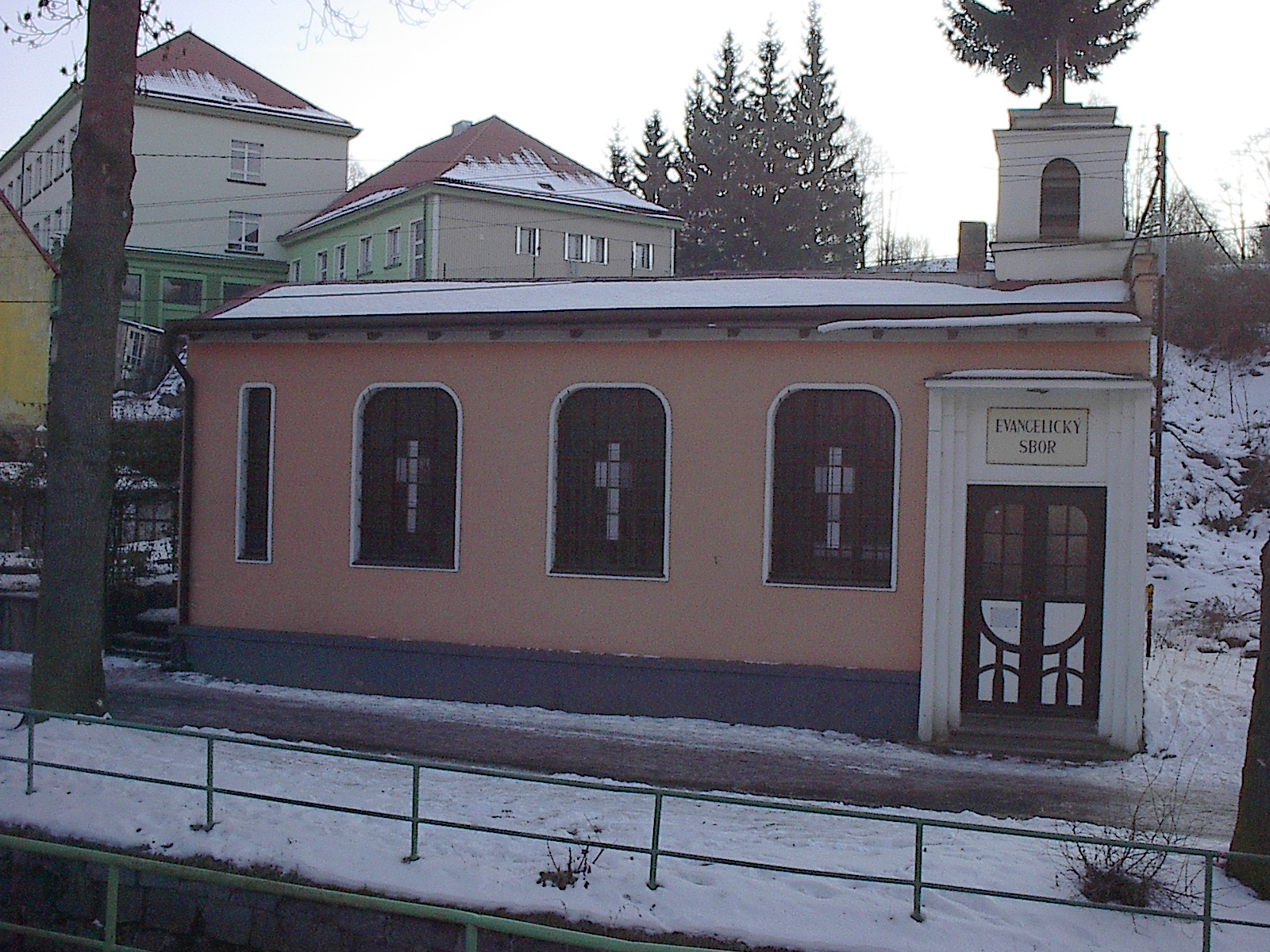 Evangelical Church of Czech Brethren in Horní Slavkov, Czech Republic.